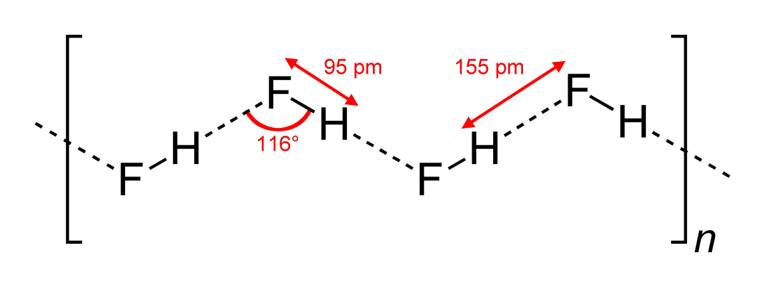 Hydrogen fluoride, dimensions